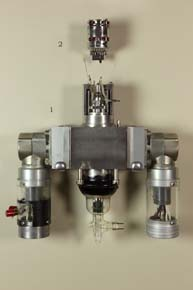 Parts to the CEC 103 Mass Spectrometer, detail showing the isatron source housing.